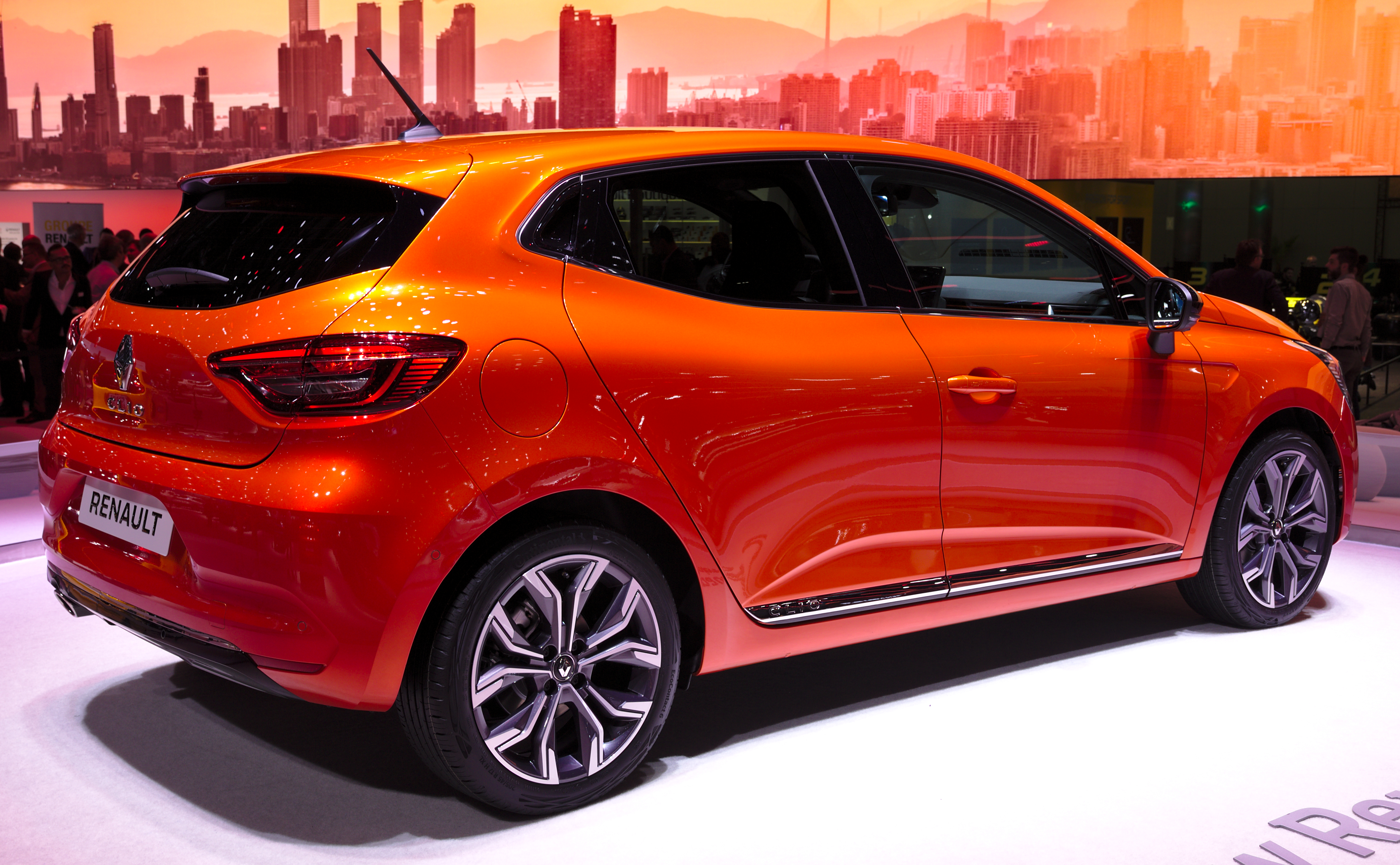 Renault Clio V at Geneva Motor Show 2019